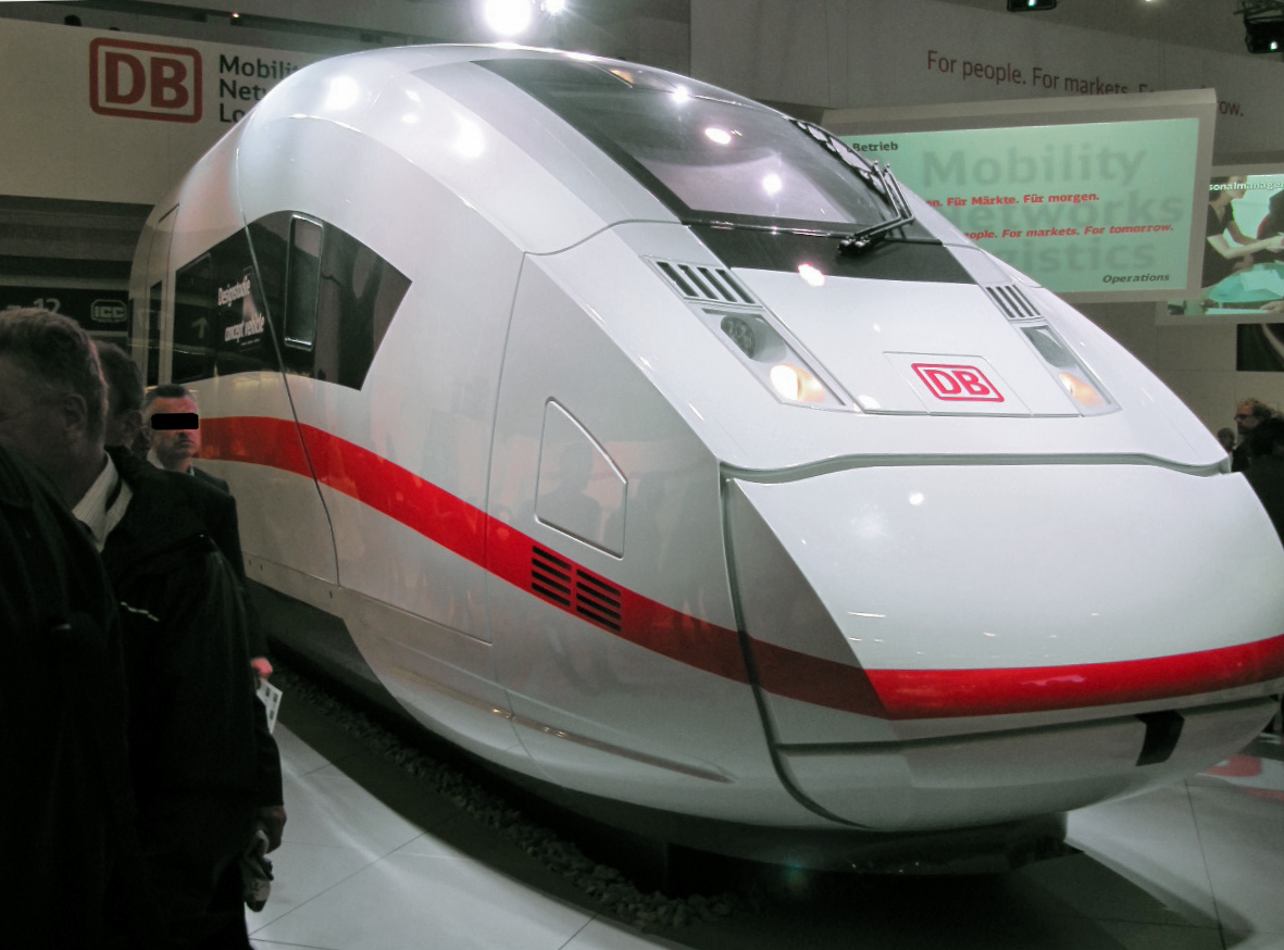 ICx Deutsche Bahn at InnoTrans 2012.